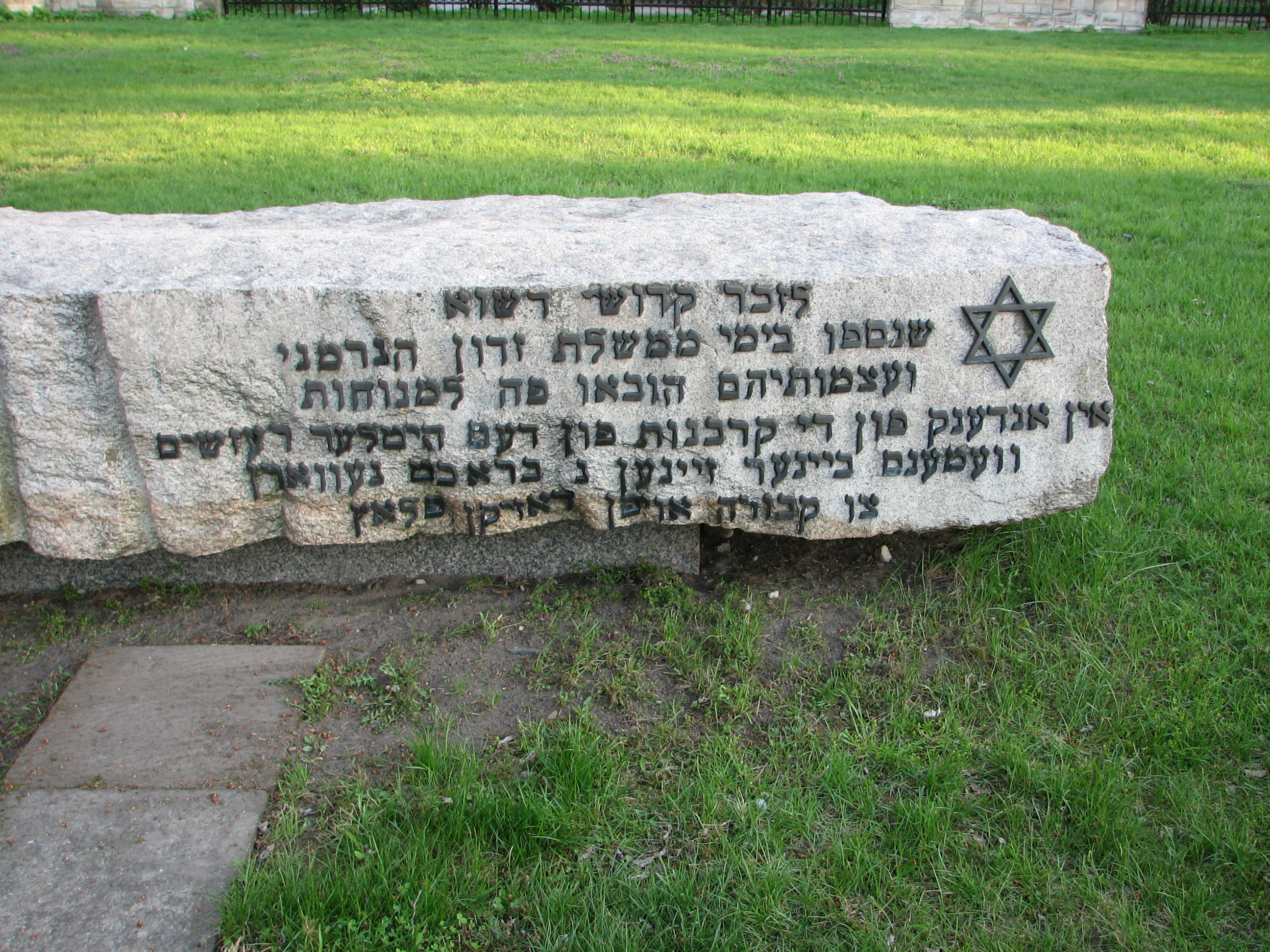 Monument of Jews and Poles Common Martyrdom in Warsaw, Gibalskiego street 21